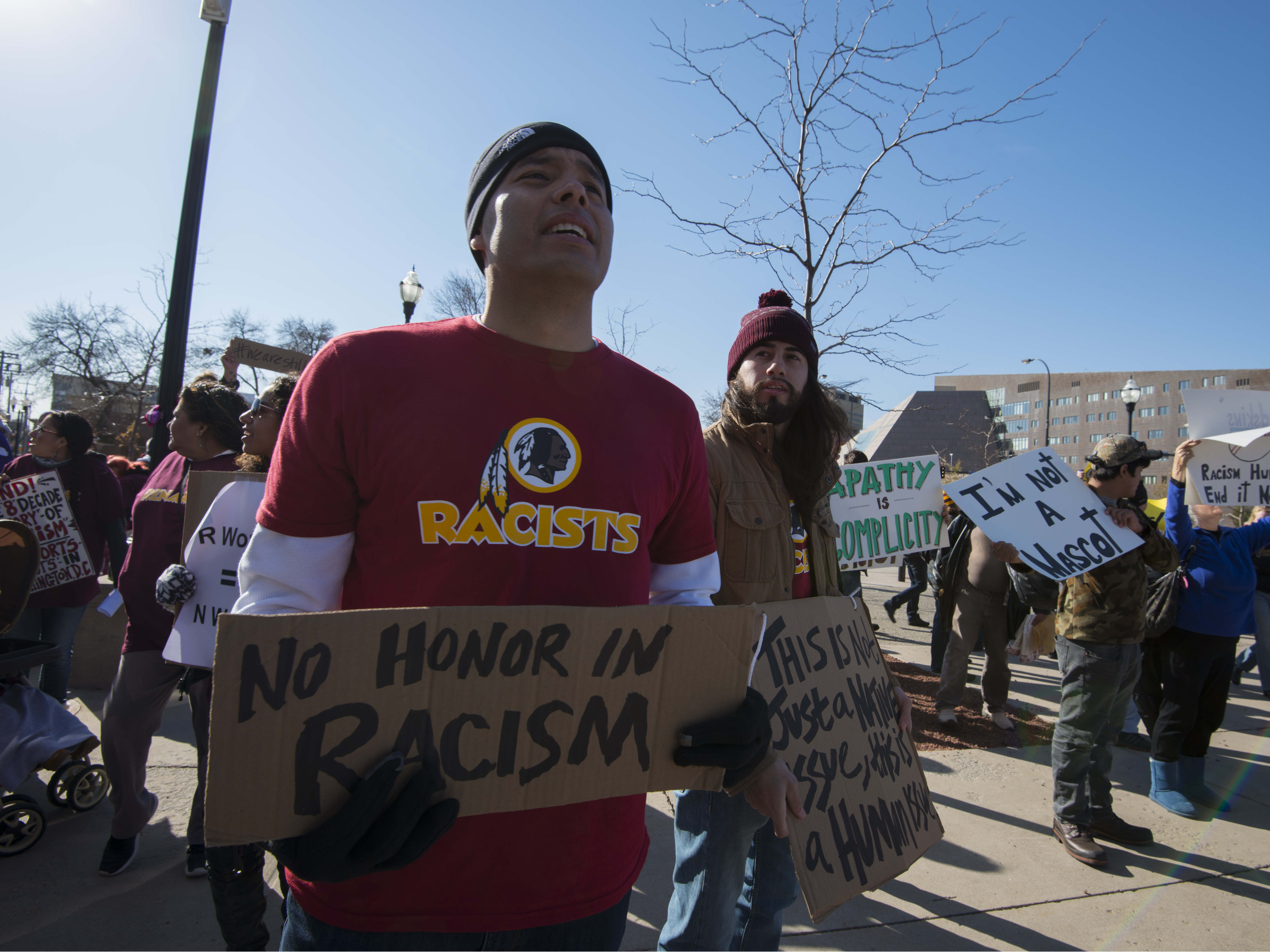 Protest of Washington NFL team